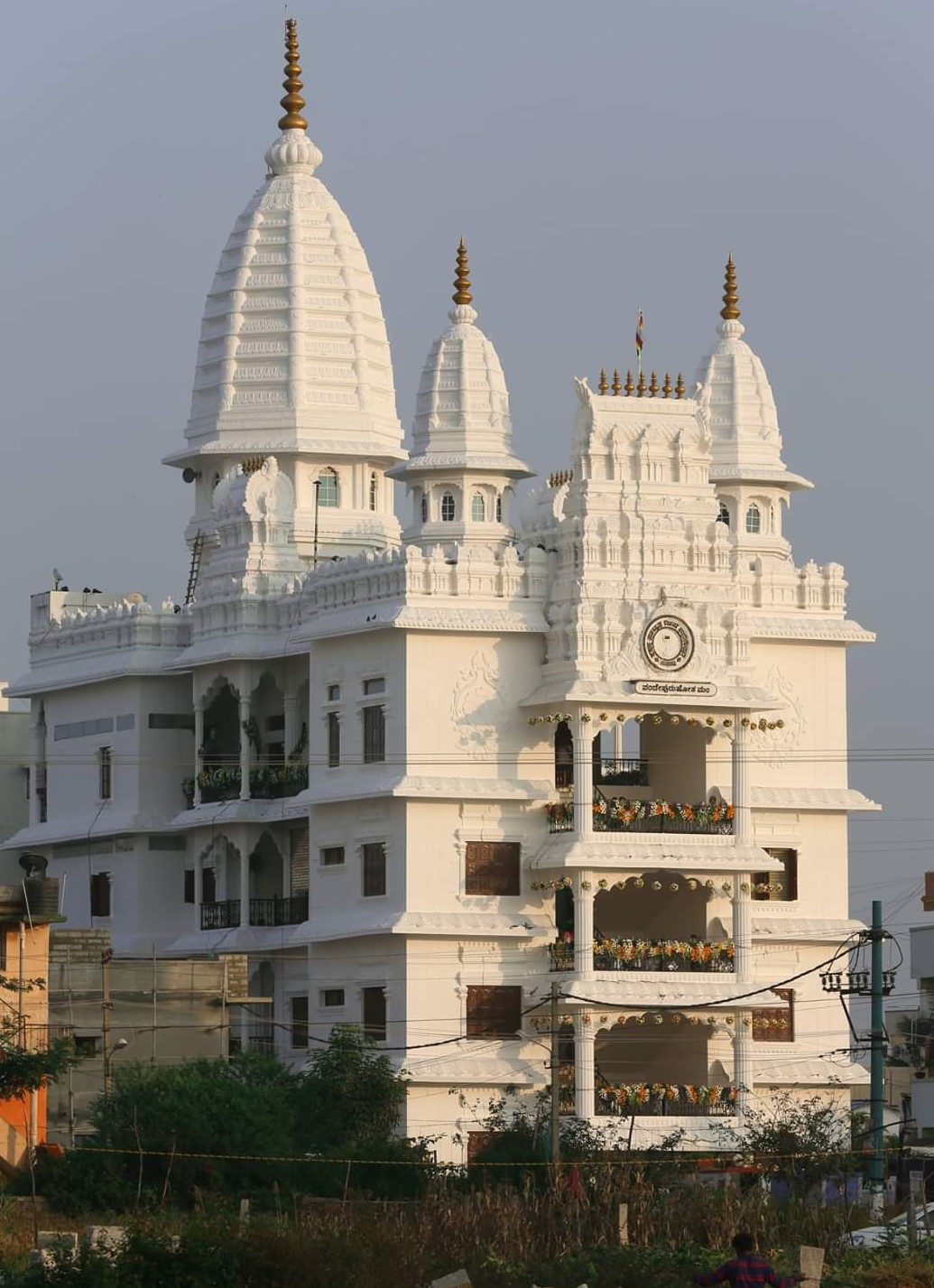 Satsang Vihar Bengaluru